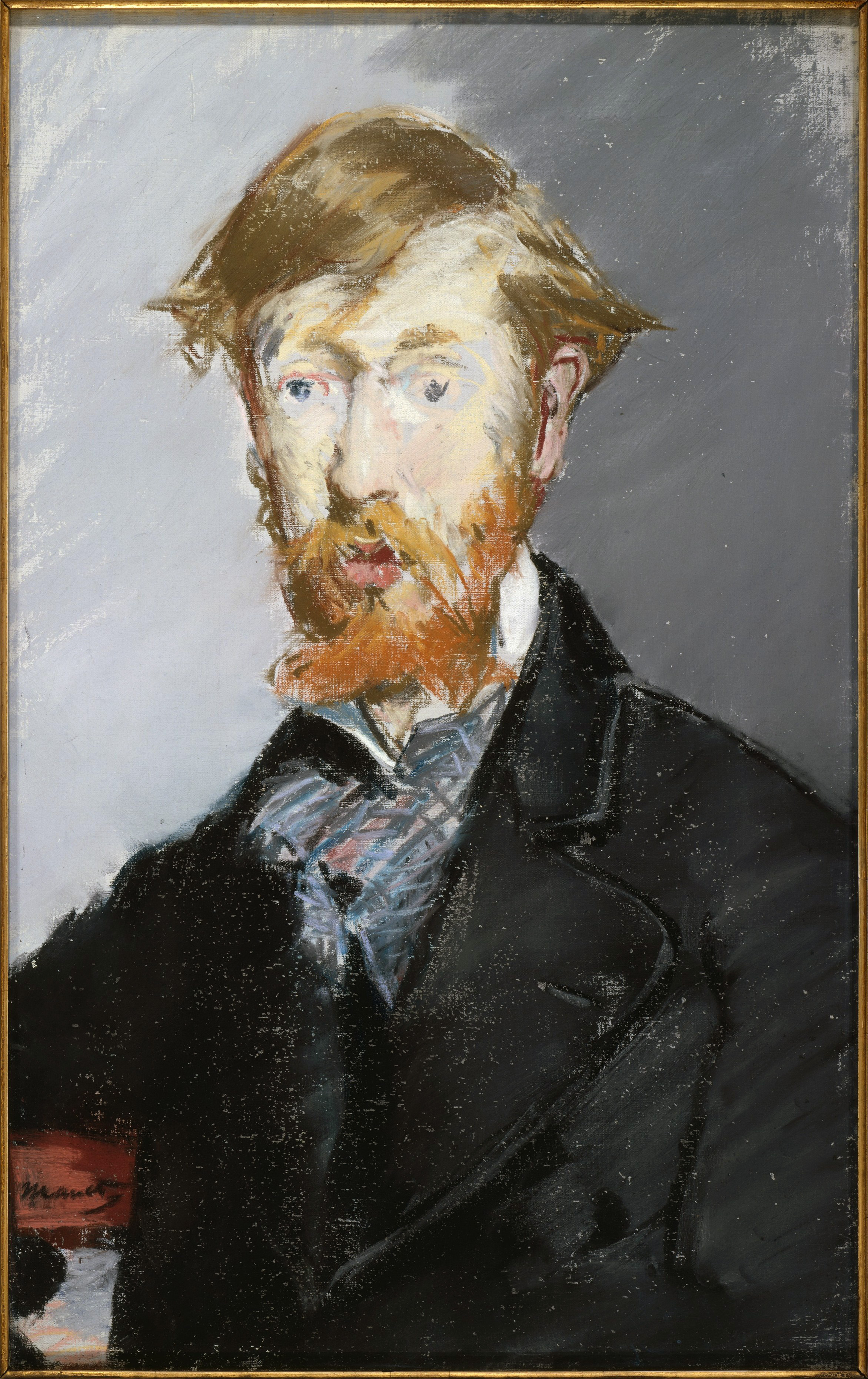 Caption from the museum This pastel, executed in one sitting, depicts the Irish critic and novelist George Moore. He used it as the frontispiece for his book Modern Painting (1893), noting that as "a fresh-complexioned, fair-haired young man, the type most suitable to Manet's palette, [the artist] at once asked [him] to sit." Critics ridiculed this work when it was exhibited in 1880, calling it "Le Noyé repêché" (the drowned man fished out of the water). The picture is Manet’s only completed portrait of Moore; one of his unfinished canvases, George Moore at the Café (55.193), is in the Museum's collection.